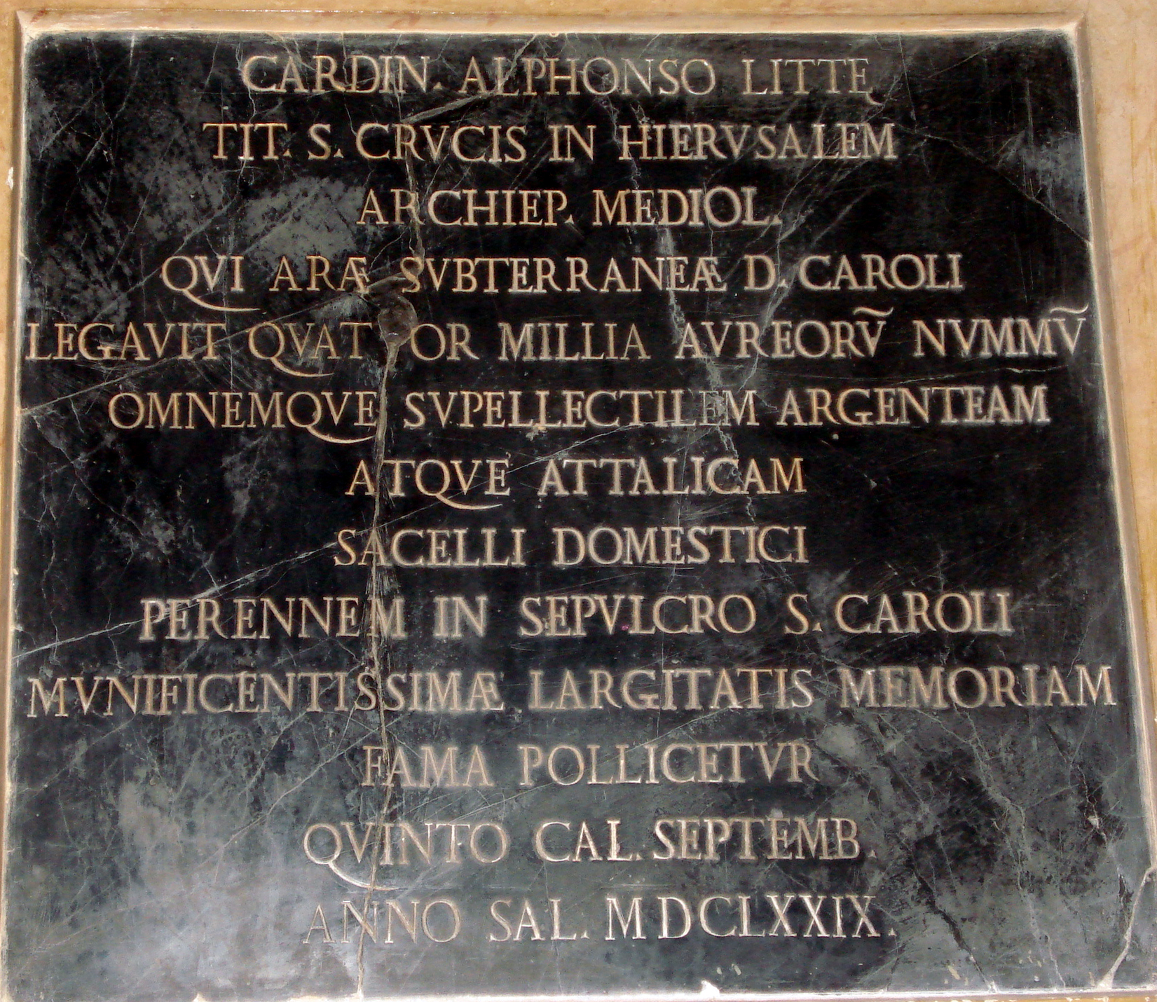 Cathedral in Milan, Italy. Plaque commemorating Alfonso Litta (1608-1679), arch-bishop of Milan and cardinal, for his donation of 4,000 gold ducates to build the Scurolo di san Carlo (Saint Charles' crypt). Picture by Giovanni Dall'Orto, January 29 2007.